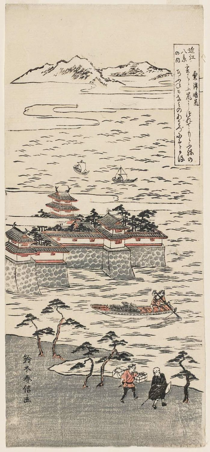 print from the series Ōmi Hakkei no Uchi